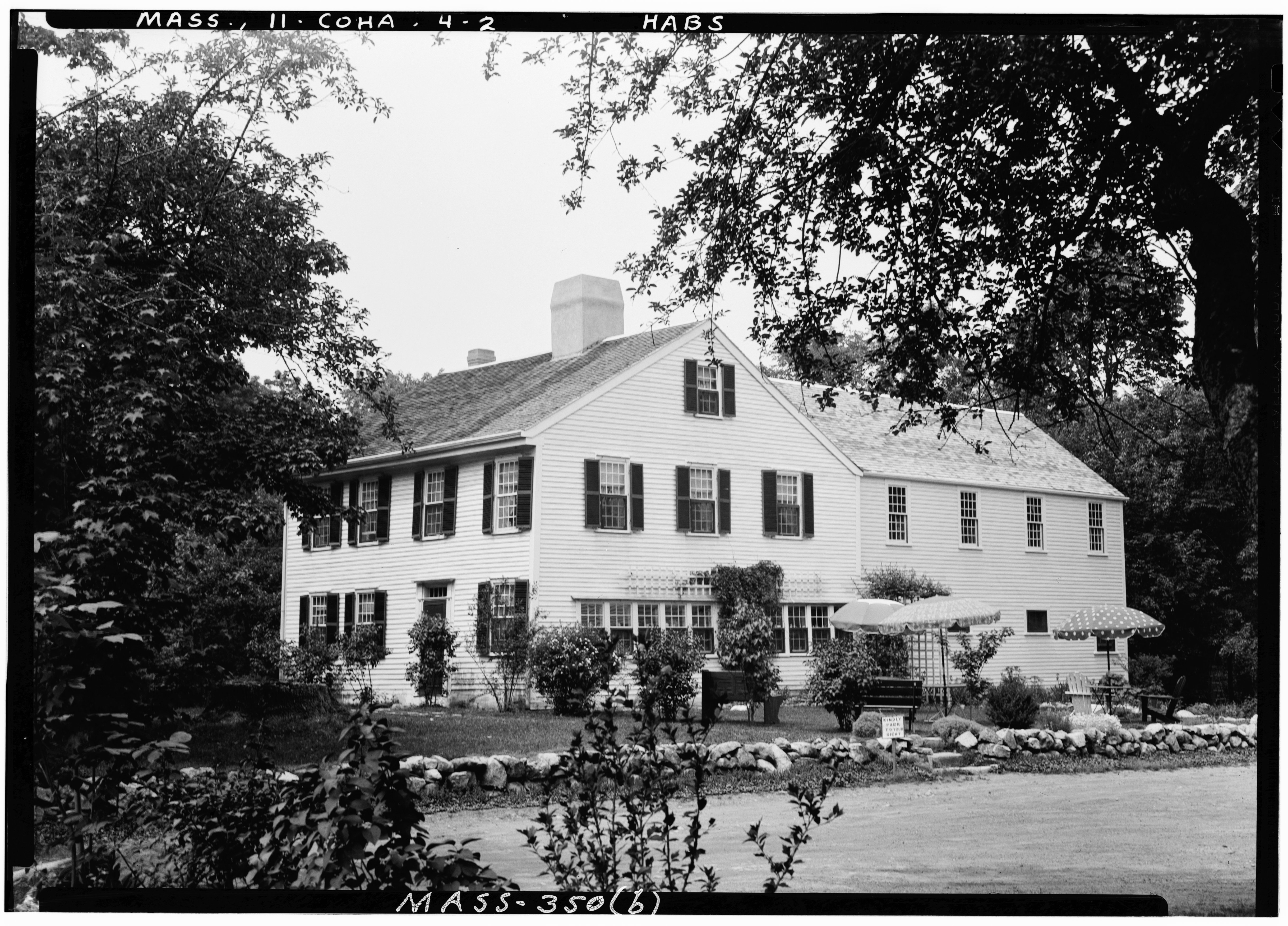 Photographic view of the front and side (looking north) of the Cushing-Nichols House, Cohasset, Norfolk County, Massachusetts. Historic American Buildings Survey, Library of Congress, Washington, D. C.